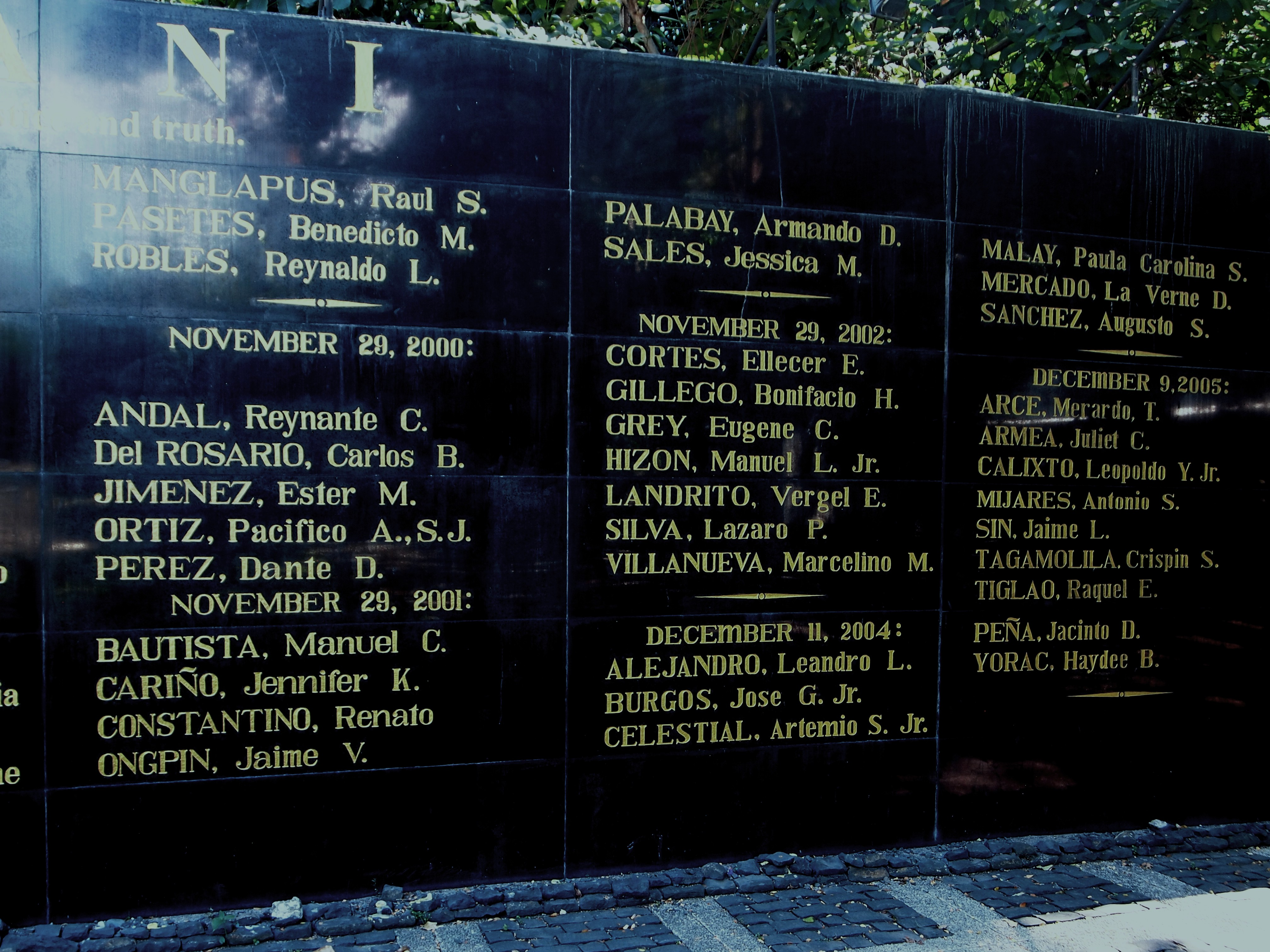 Detail of the Wall of Remembrance at the Bantayog ng mga Bayani, photographed at noon on 15 November 2018, showing names from the 2000, 2001, 2002, 2004, and 2005 batches of Bantayog honorees